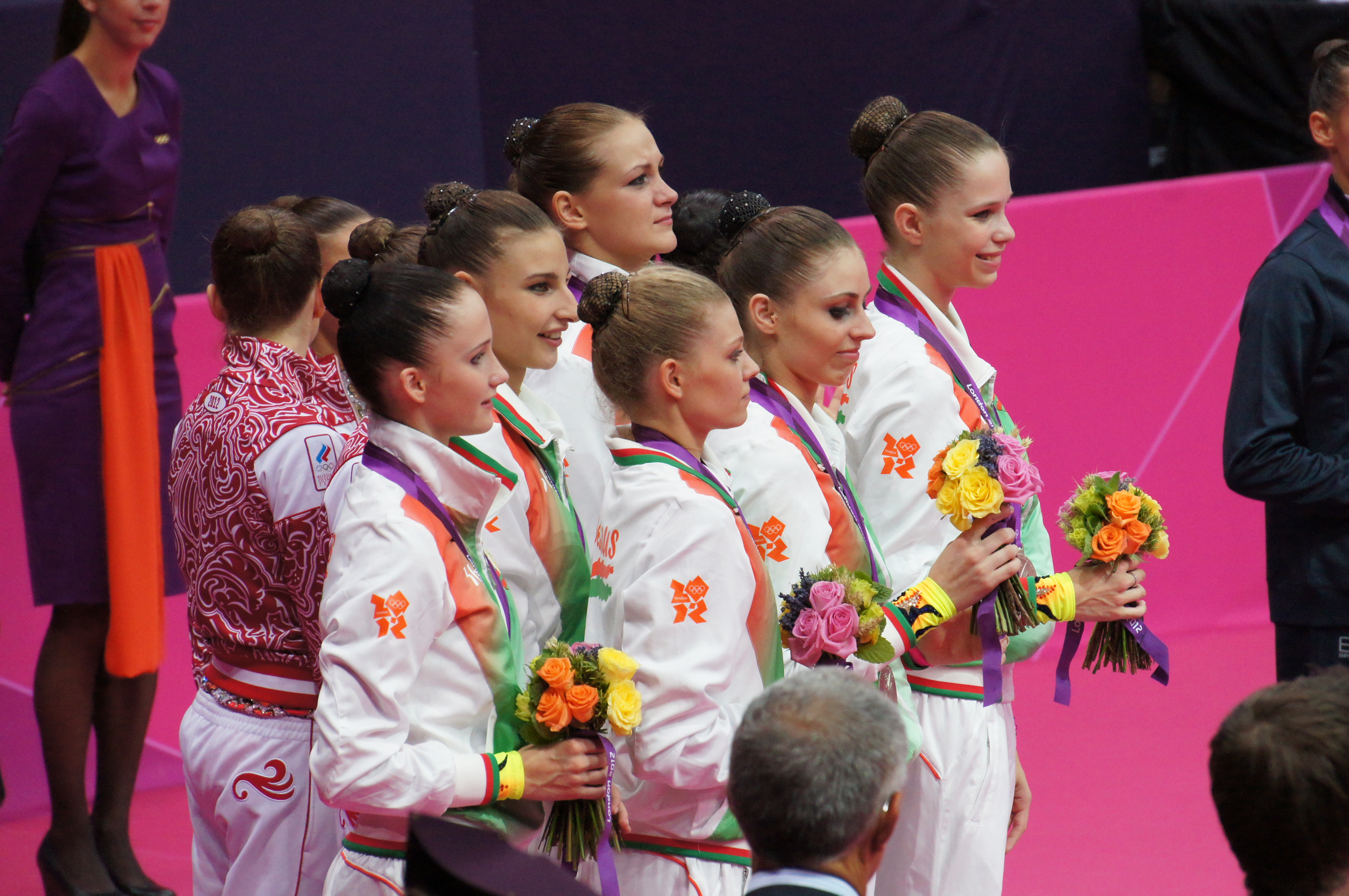 Women's Rhythmic Gymnastics silver medalists at the Olympic Games in London 2012 (Belarusian team).